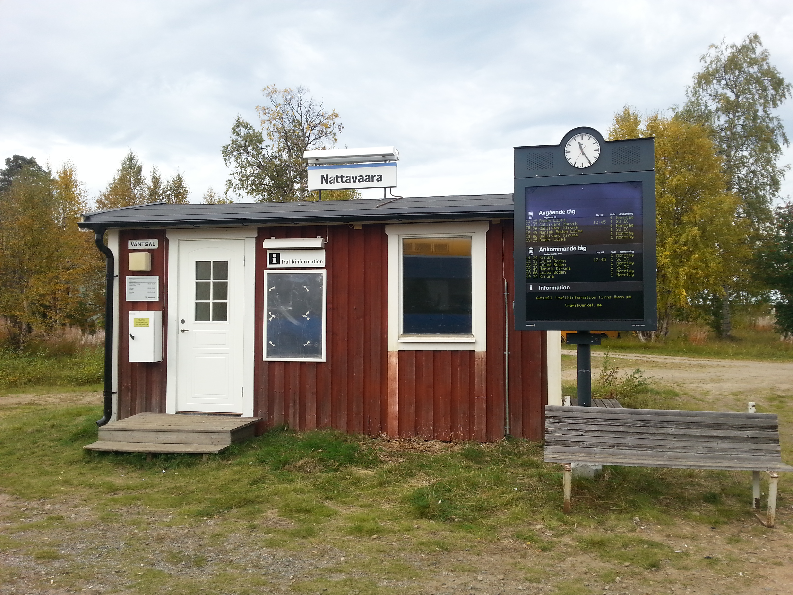 Nattavaara station